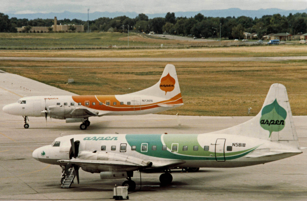 Convair 580 of Aspen Airways at Denver Stapleton Airport in 1986